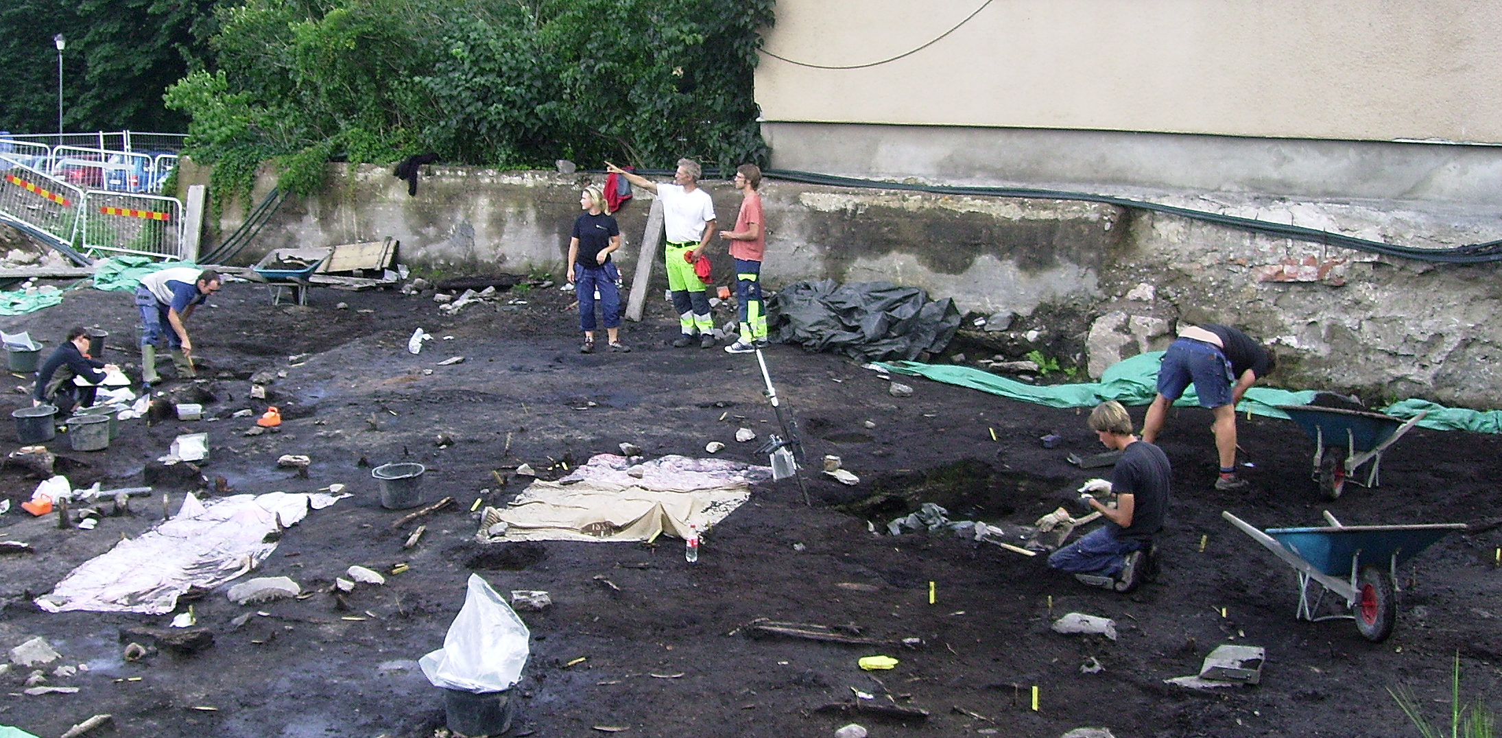 Picture of archaeological excavations in Nyköping (Åkroken)